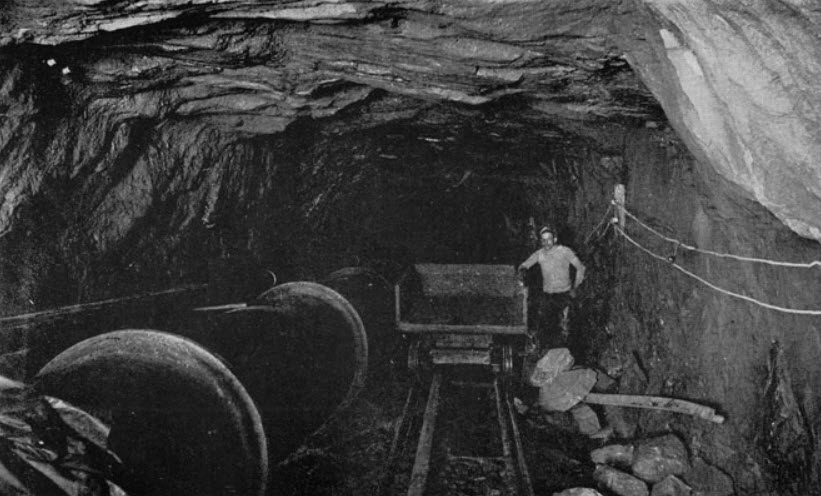 East River Gas Tunnel in New York City: unlined rock section